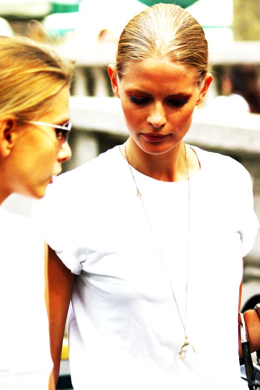 Supermodel Julia Stegner exits the Bryant Park tents during the Mercedes-Benz Fashion Week show on September 9, 2007.